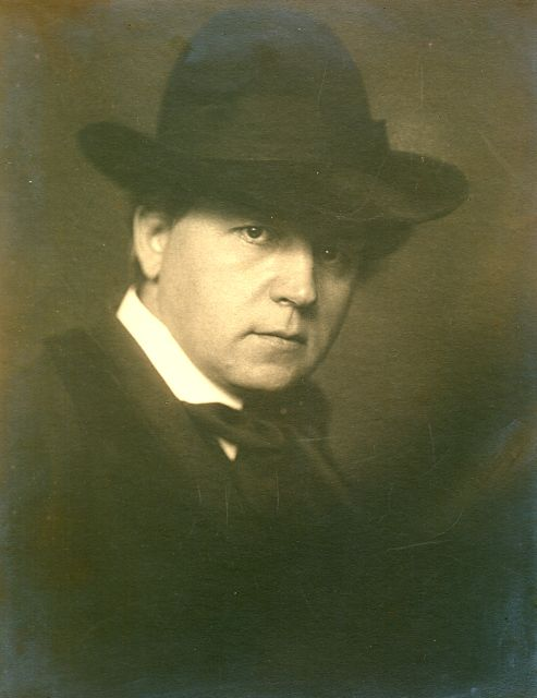 Portrait of Ferenc Molnár Photograph by Aladár Székely